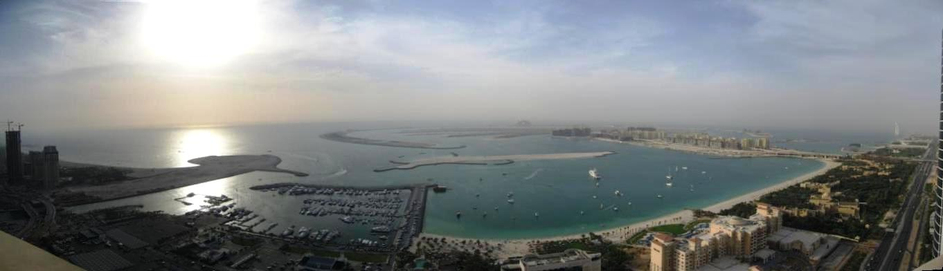 View onto the Palm Jumeirah and the beaches